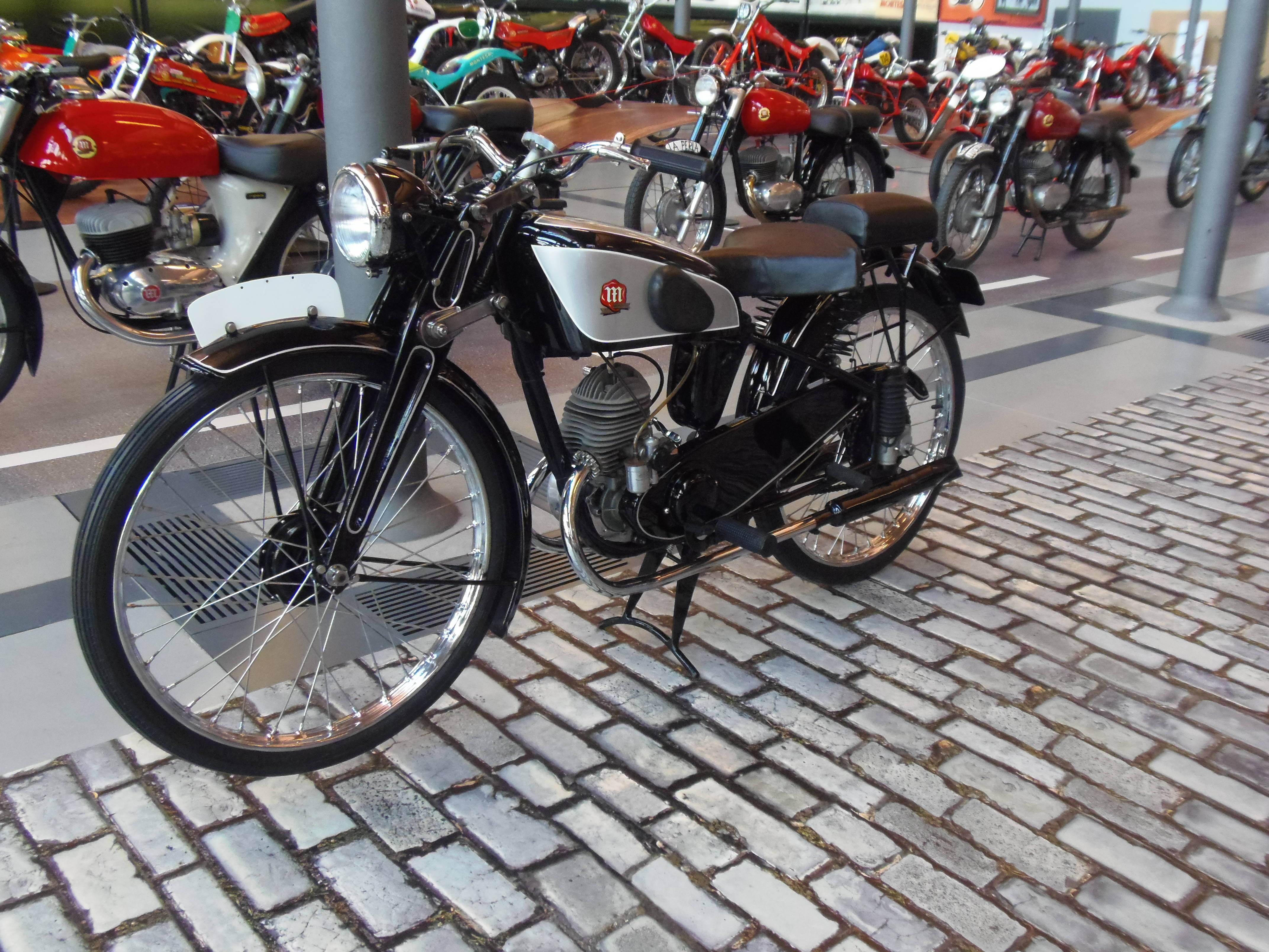 Montesa A-45 98cc, also known as Kettle due to shape of the cylinder. It was the first model made by Montesa (1945)